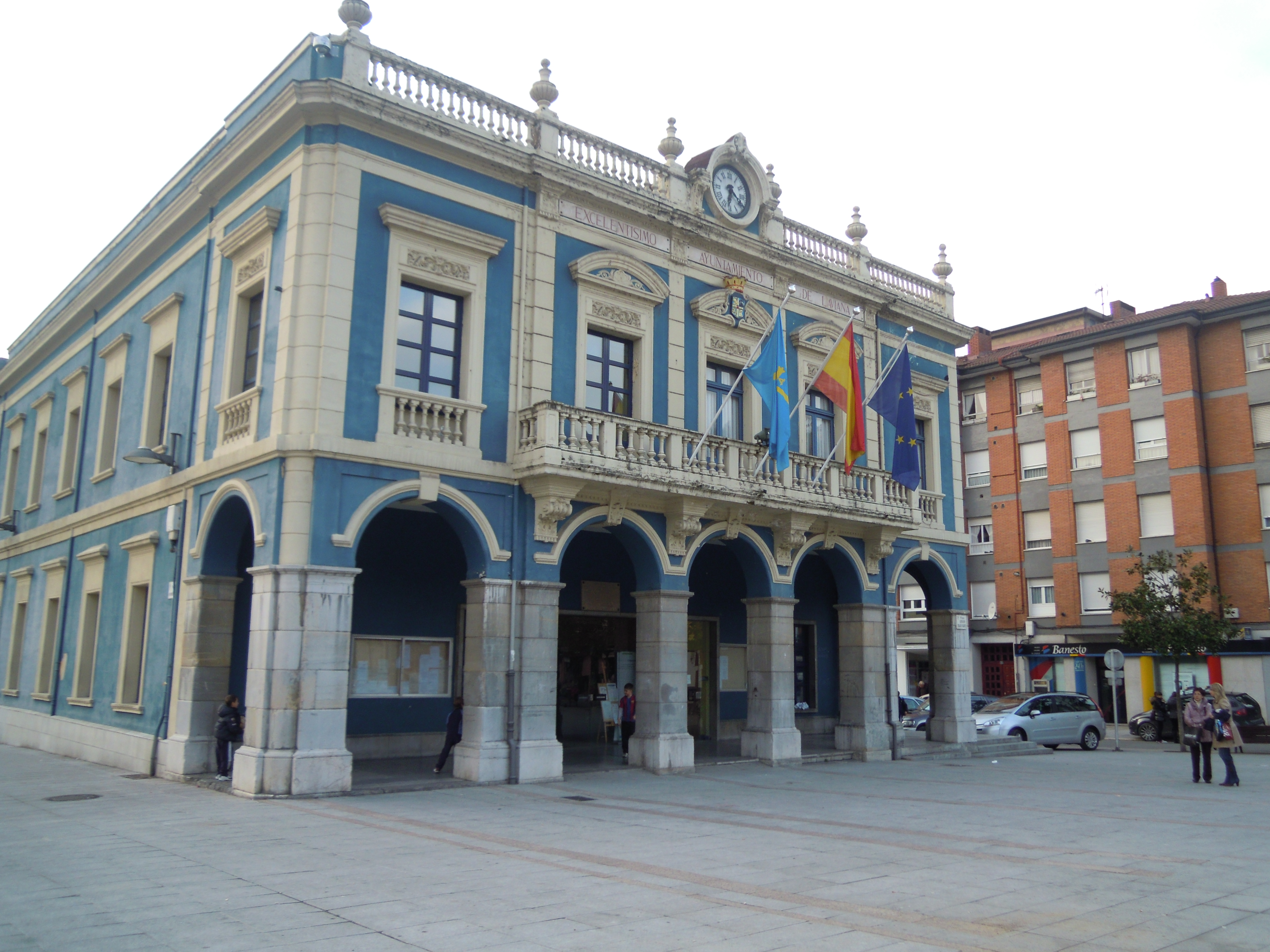 Llaviana's town hall (Asturies)